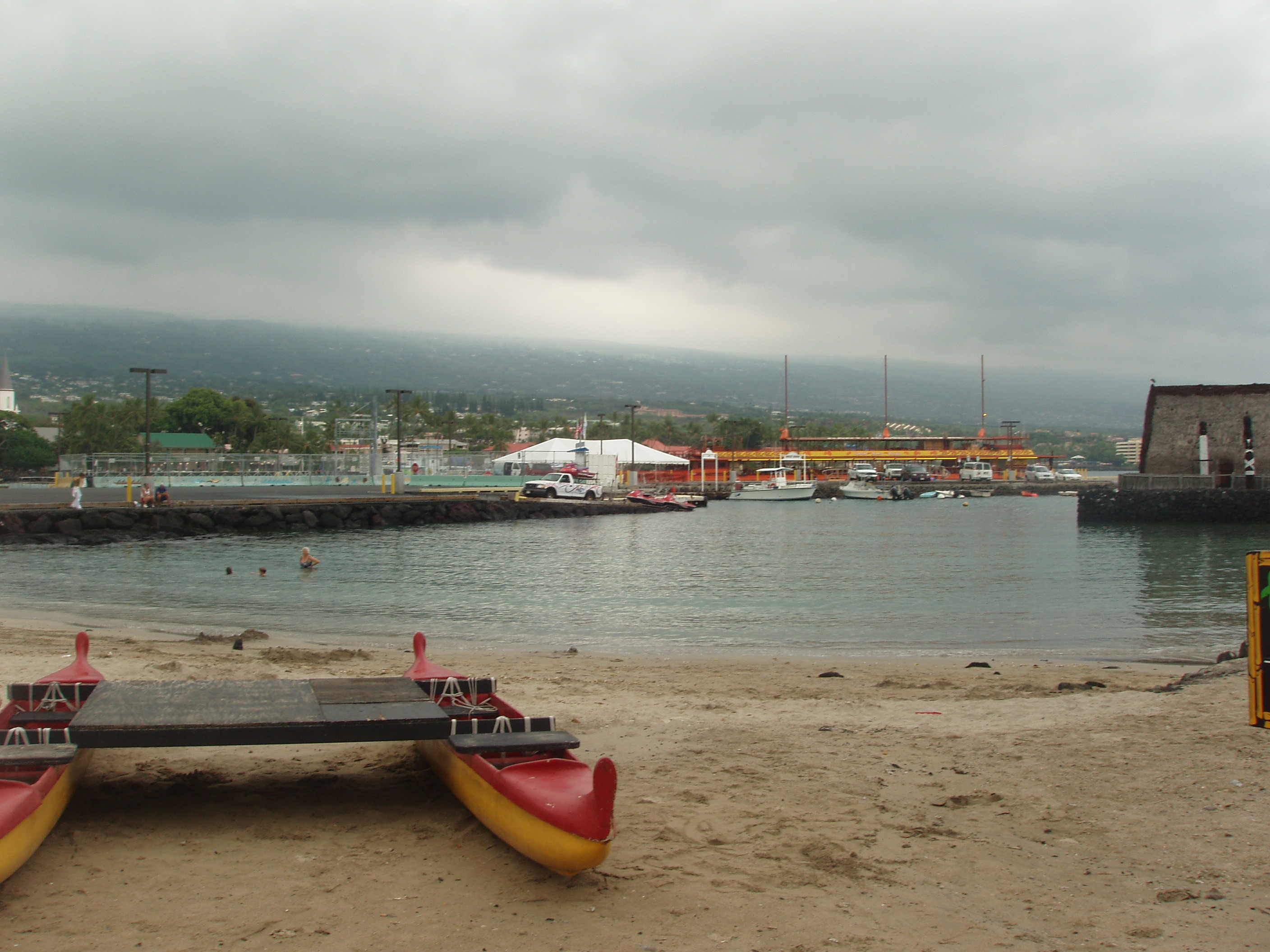 Kamakahonu Beach and Kailua Pier